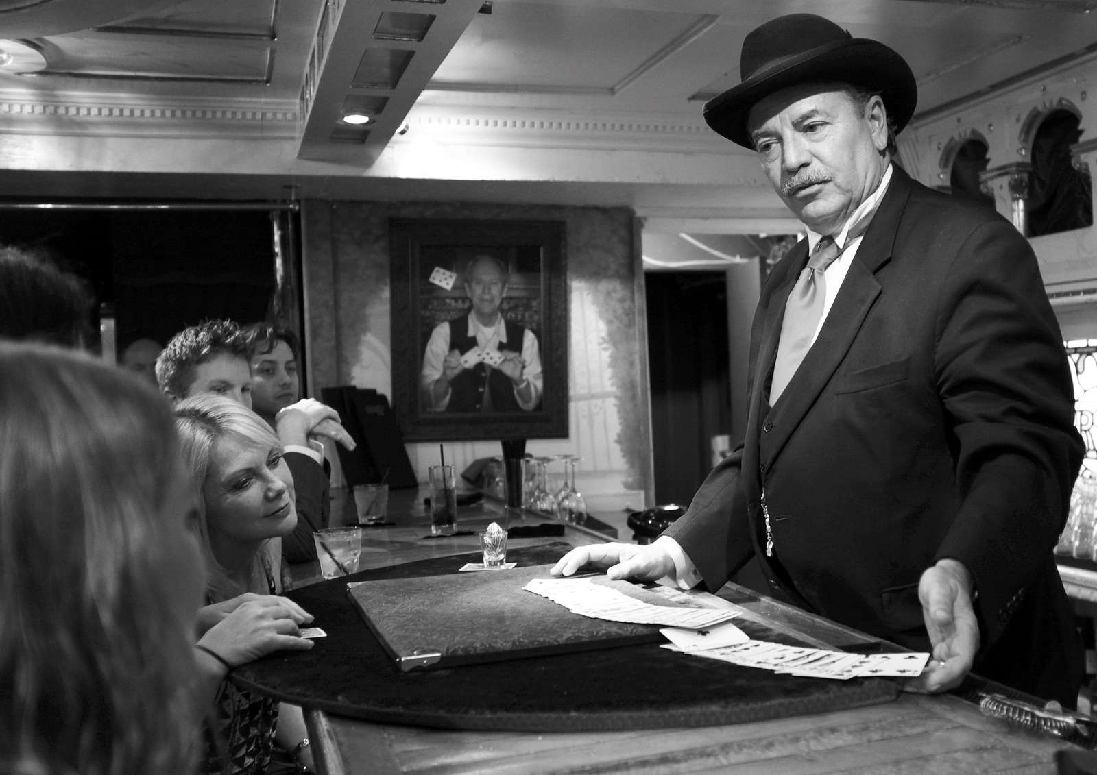 Photo by Billy Baque of Whit "Pop" Haydn performing at the Magic Castle in the W. C. Fields Bar. May, 2013.